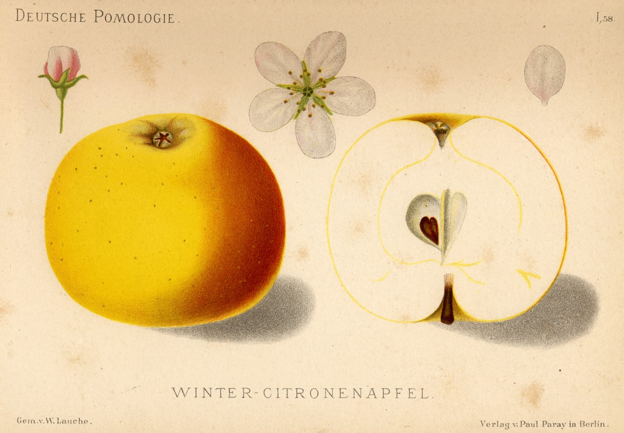 Illustration 58 from Deutsche Pomologie - Aepfel Apple cultivar shown: Winter-Citronenapfel